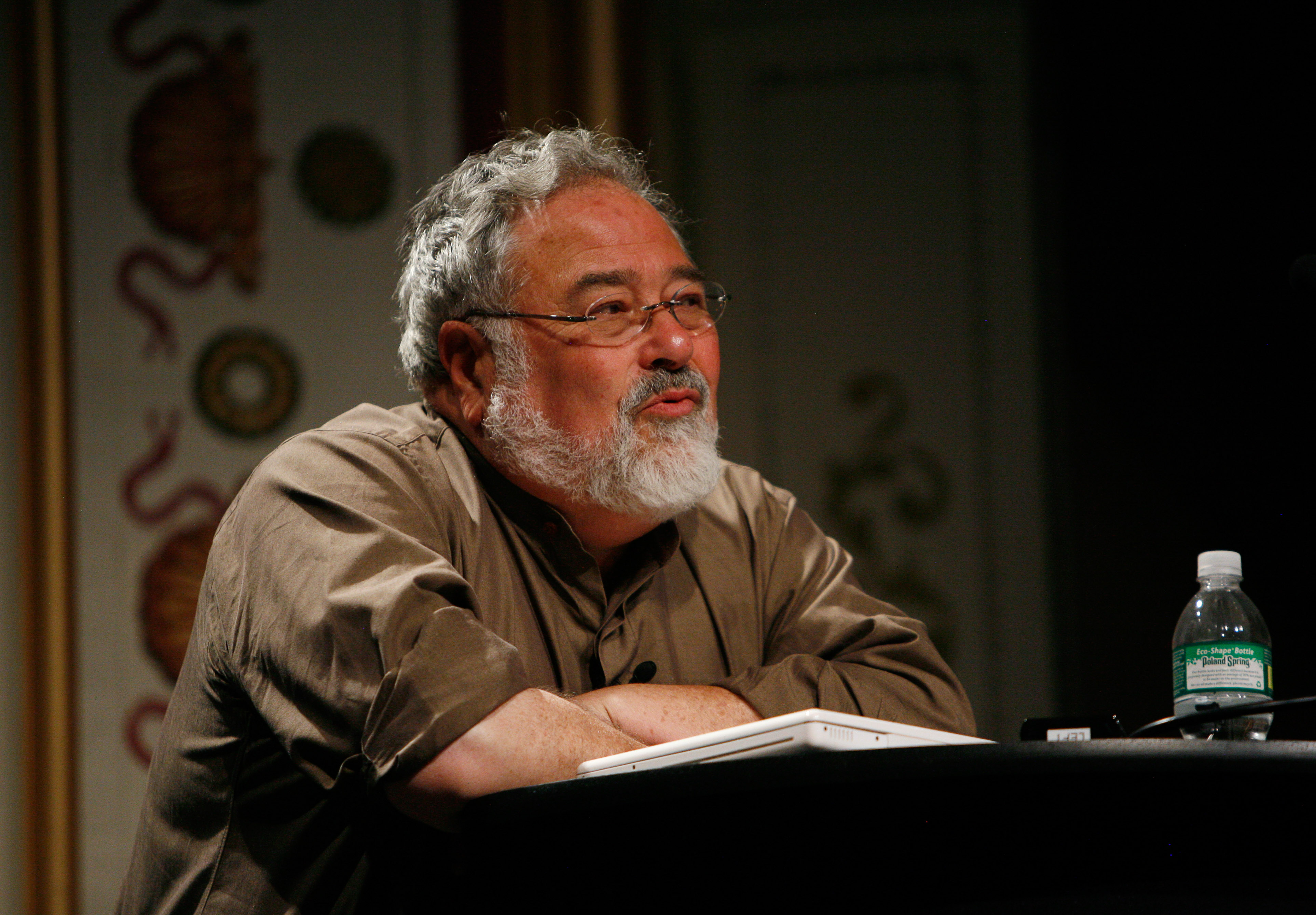 Linguist George Lakoff lectures on the relationship between words and politics, applying his research on the brain and our unconscious understanding of language to the upcoming presidential election. photography by kris krüg